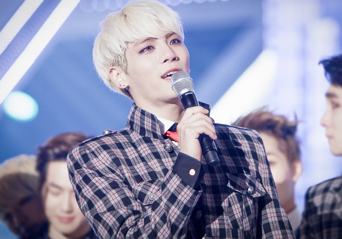 Jonghyun at the Melon Music Awards on November 14, 2013.